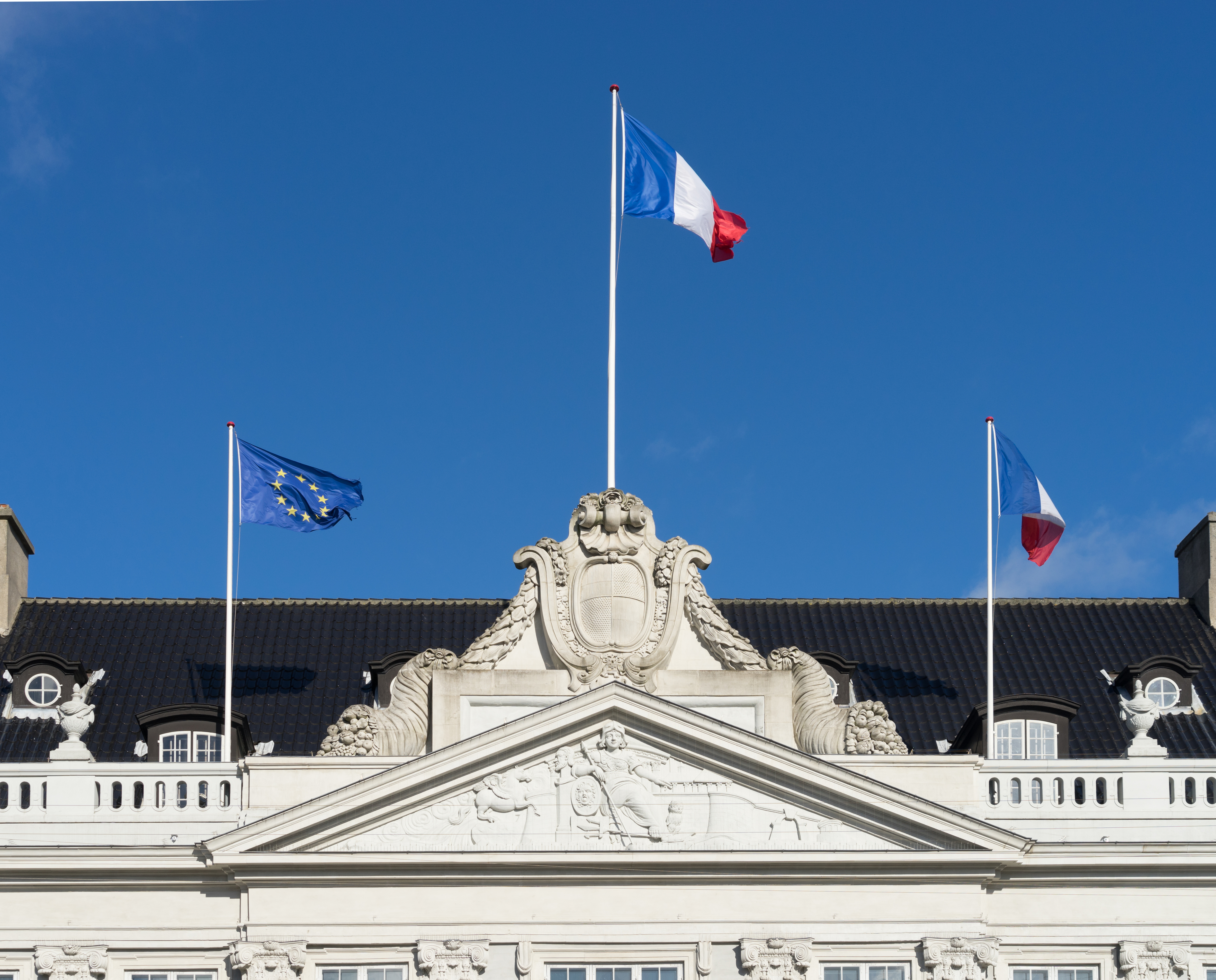 Pediment of the french embassy, Copenhagen, Denmark.